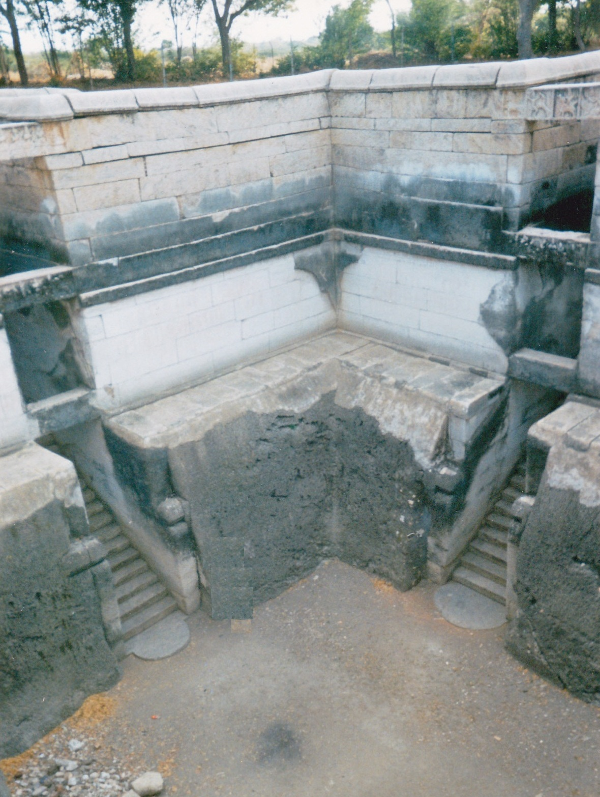 Temple tank of tiruvellarai